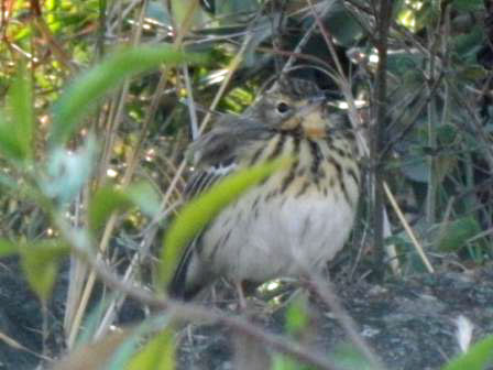 Short-tailed Pipit (Anthus brachyurus) - Eburu, Kenya.